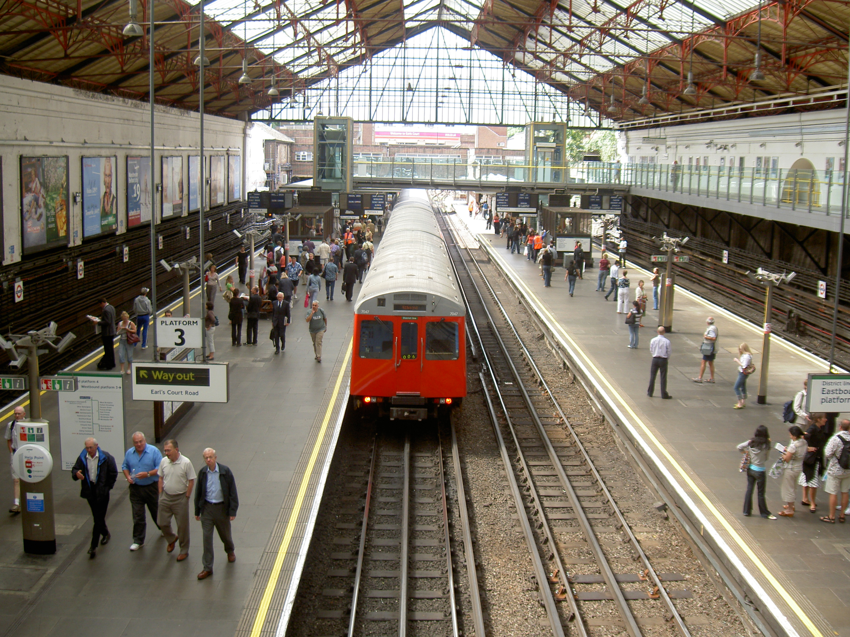 It's a perfect picture of a cool train station in London.